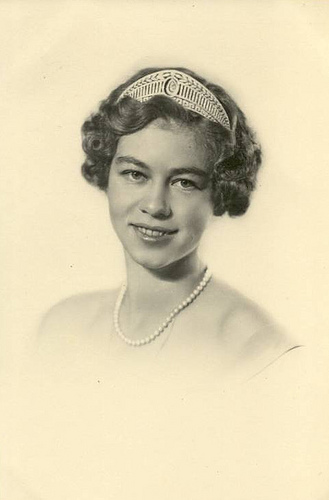 Princess Frederica of Hanover, later Queen of Greece. (Prinzessin Friederike von Hannover, später Königin der Hellenen)